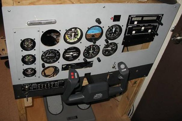 Home built Cessna style Simulator Cockpit